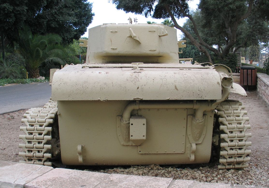 Description: M22 Locust tank in Negba, Israel. 2005. Source: Photo by me, User:Bukvoed.